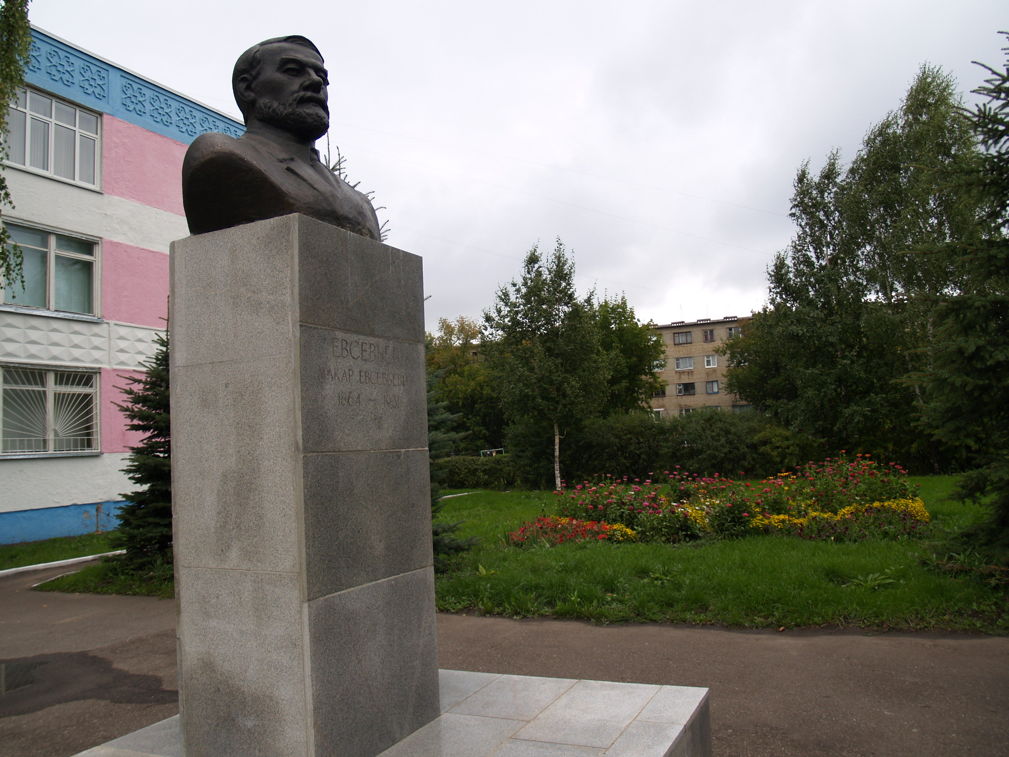 Bust of M. Evseveva in Mordovian State Pedagogical Institute named after M. E. Evsevev